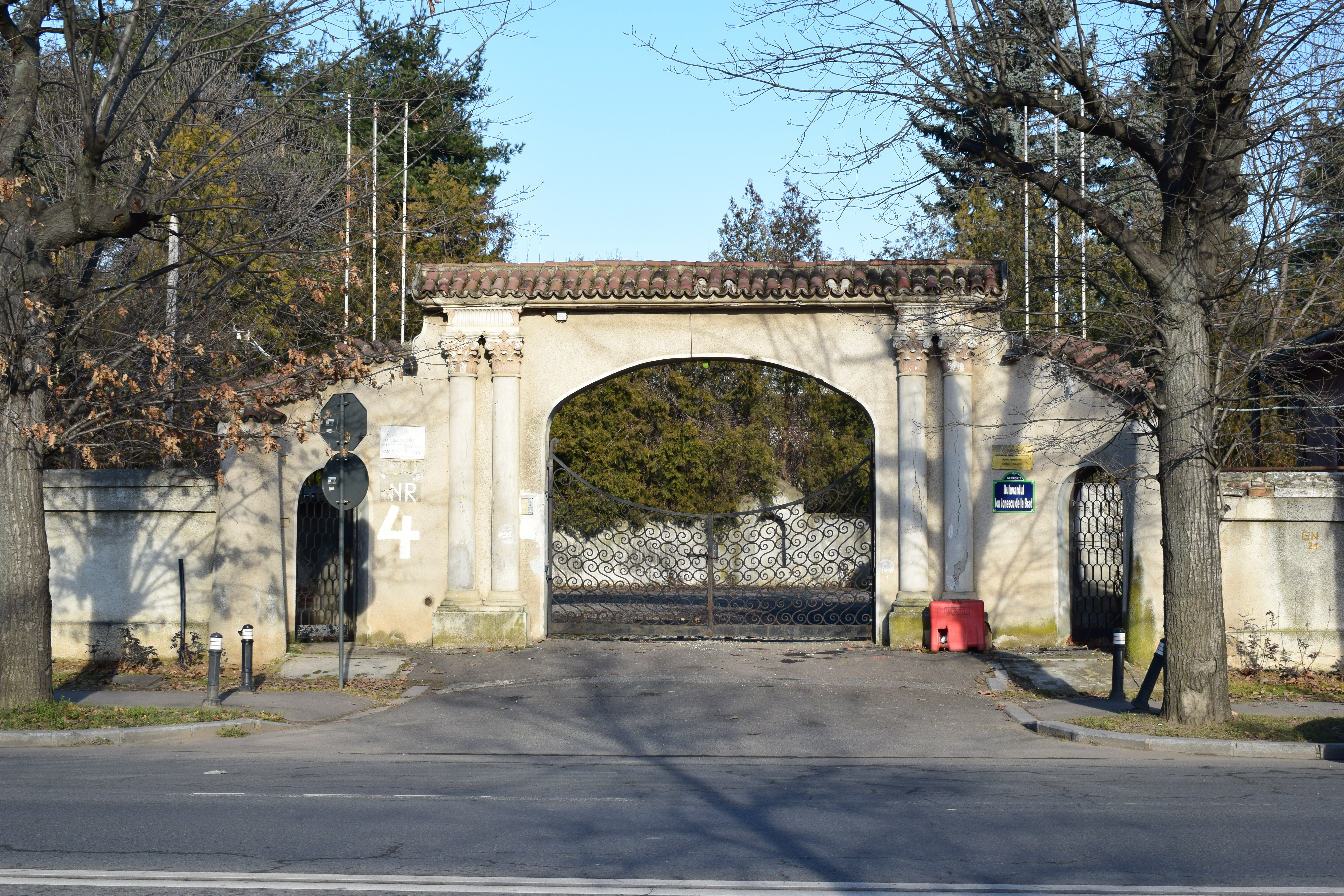 The gate of the historical Bucharest residence beloging to Prof. Nae Ionescu, then Marshal Ion Antonescu - situated in Băneasa neighborhood. The residence itself it's not visible from the street, because it's hdden by a pergola